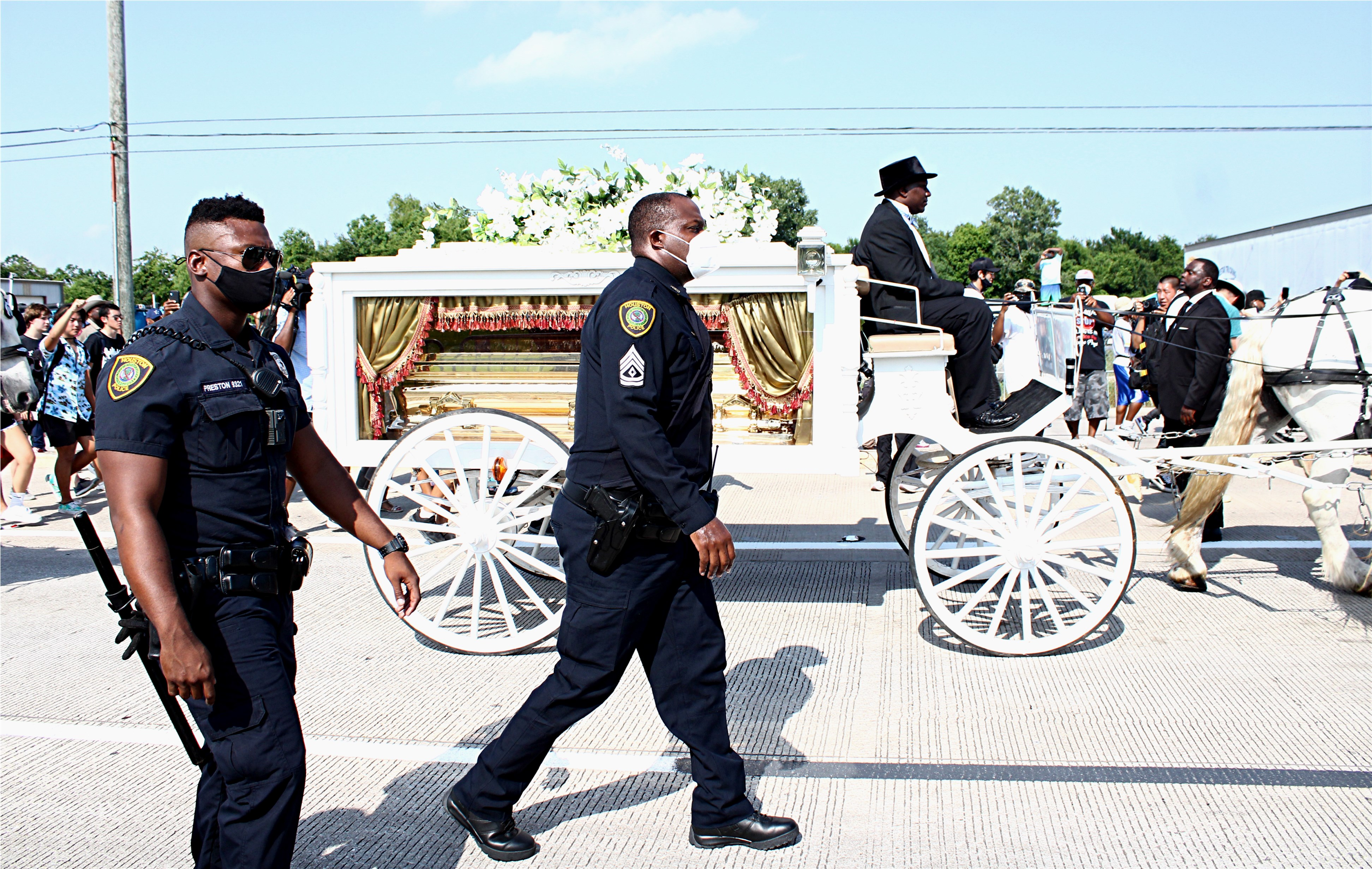 The Last Mile Of The Way.. Funeral procession with a horse-drawn carriage of George Floyd’s body down Cullen Blvd to the Houston Memorial Gardens Cemetery. Pearland, TX 6-9-20